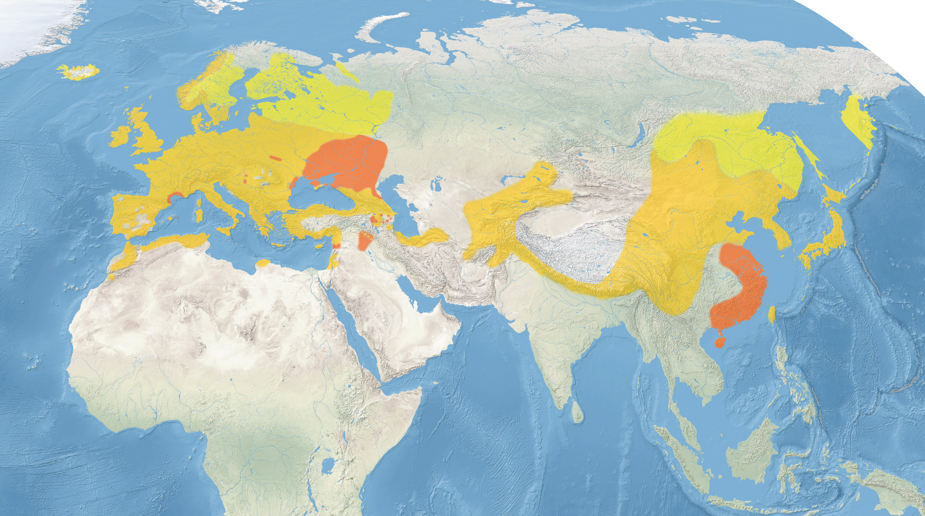 Distribution map of the Eurasian Wren Troglodytes troglodytes Light yellow: Breeding summer visitor Dark yellow: Breeding resident Orange: Non-breeding winter visitor